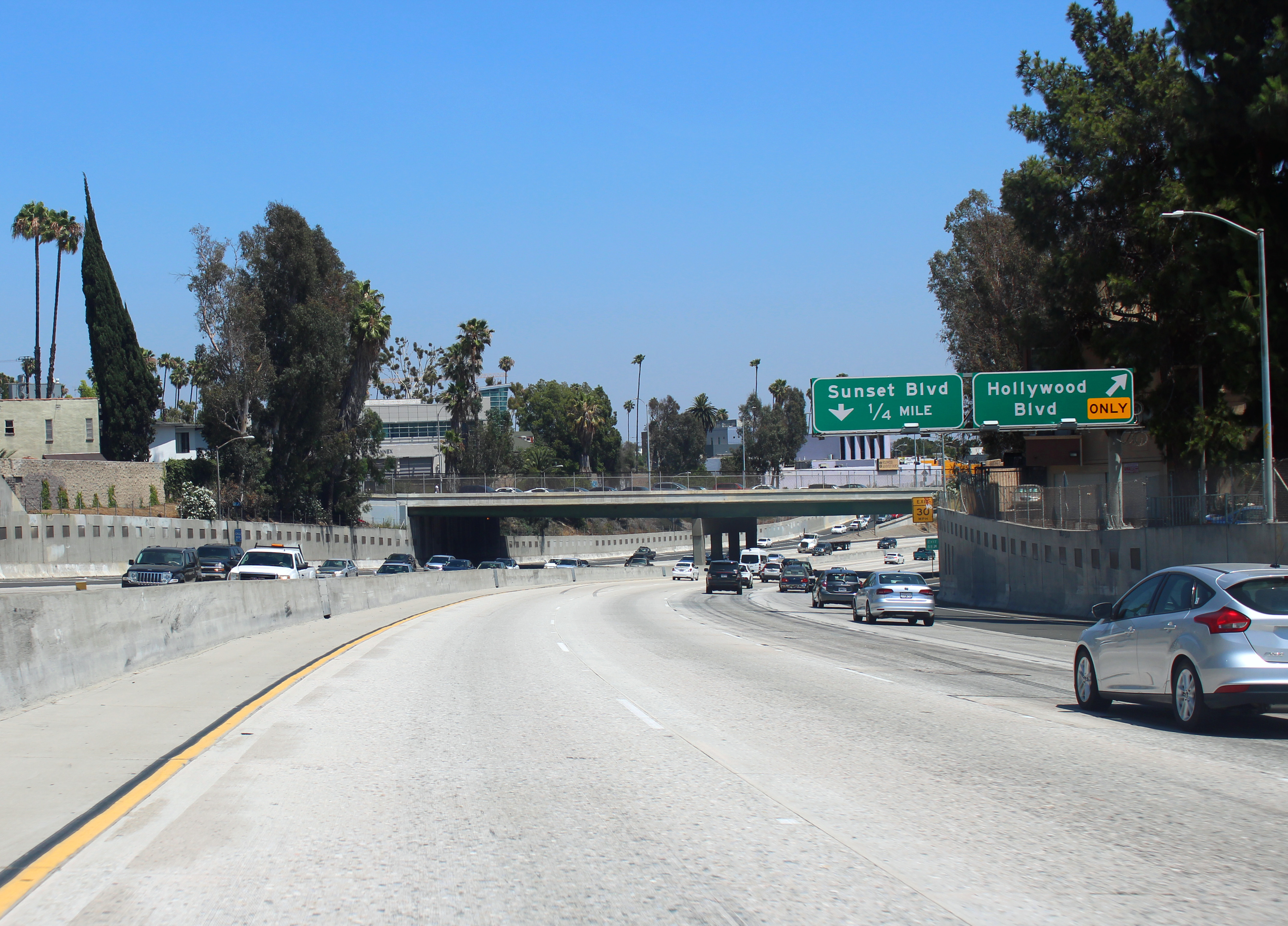 The Hollywood Freeway southbound in the Hollywood neighborhood of Los Angeles, California, near the Hollywood Boulevard exit. Photographed by user Coolcaesar on July 6, 2016.